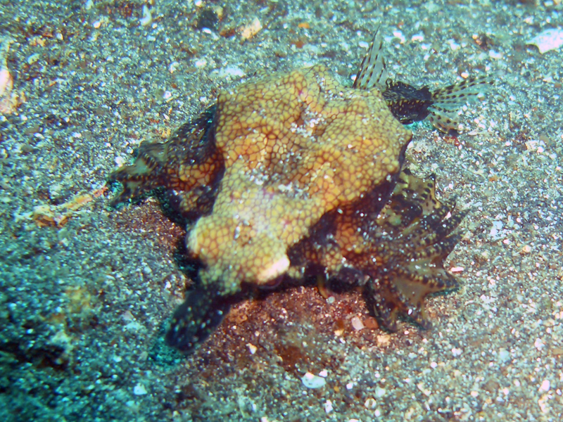 Eurypegasus draconis. This is a really bizarre fish. It looks like a platypus and moves in a very odd manner.